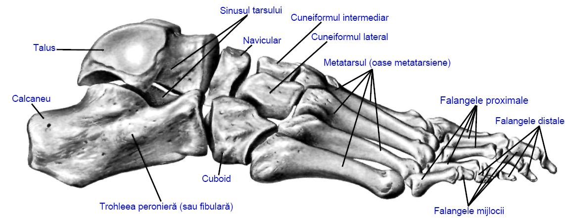 Foot bone lateral view